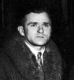 Feliks Stamm (Polish boxing coach) in January 1934; Stockholm, Poland–Sweden match.